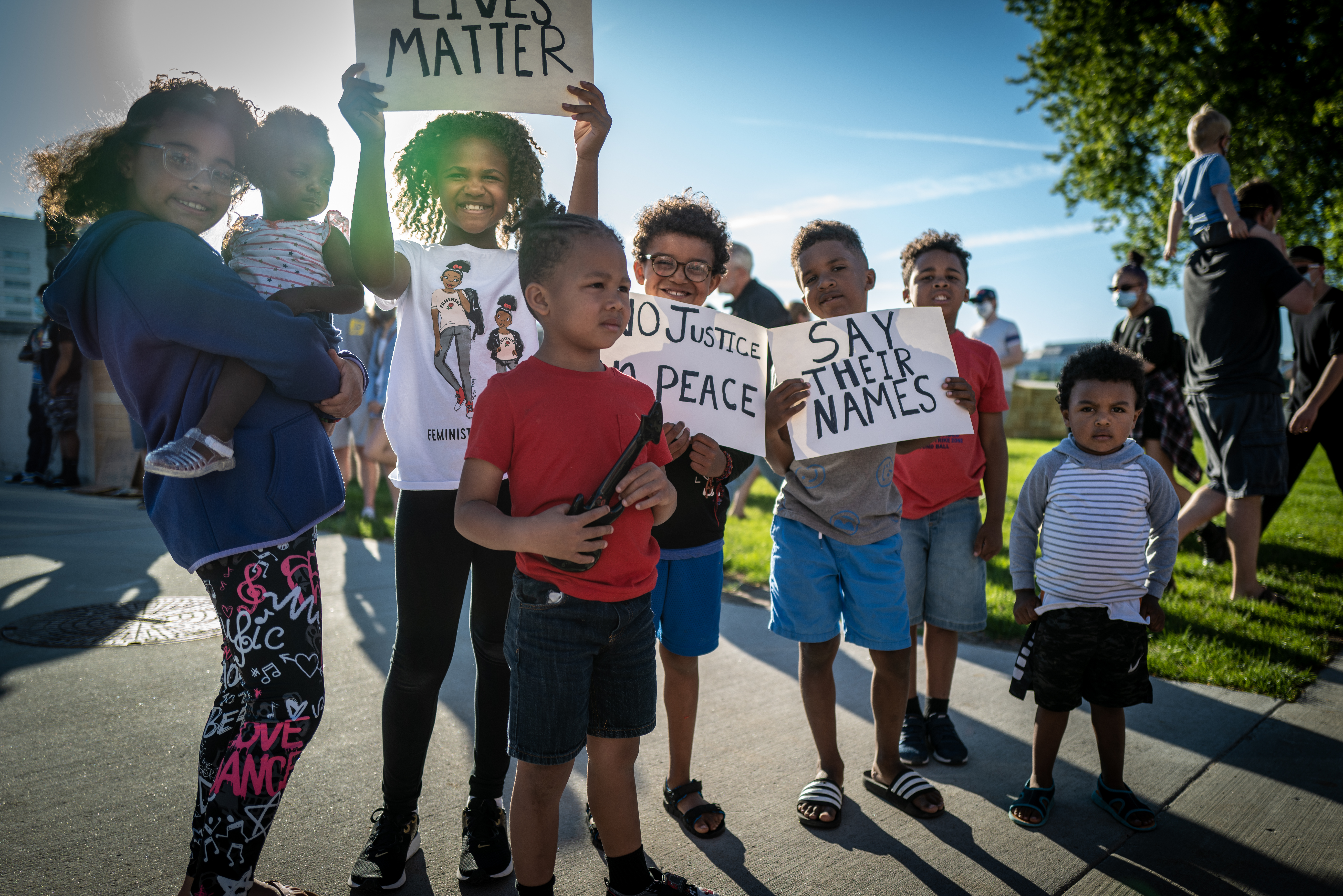 Well over a thousand people gathered in downtown Des Moines, joining other protests around the country demanding justice over the murder of George Floyd by a police officer in Minneapolis. After the organized protest, some people went on to confront police and damage nearby businesses.